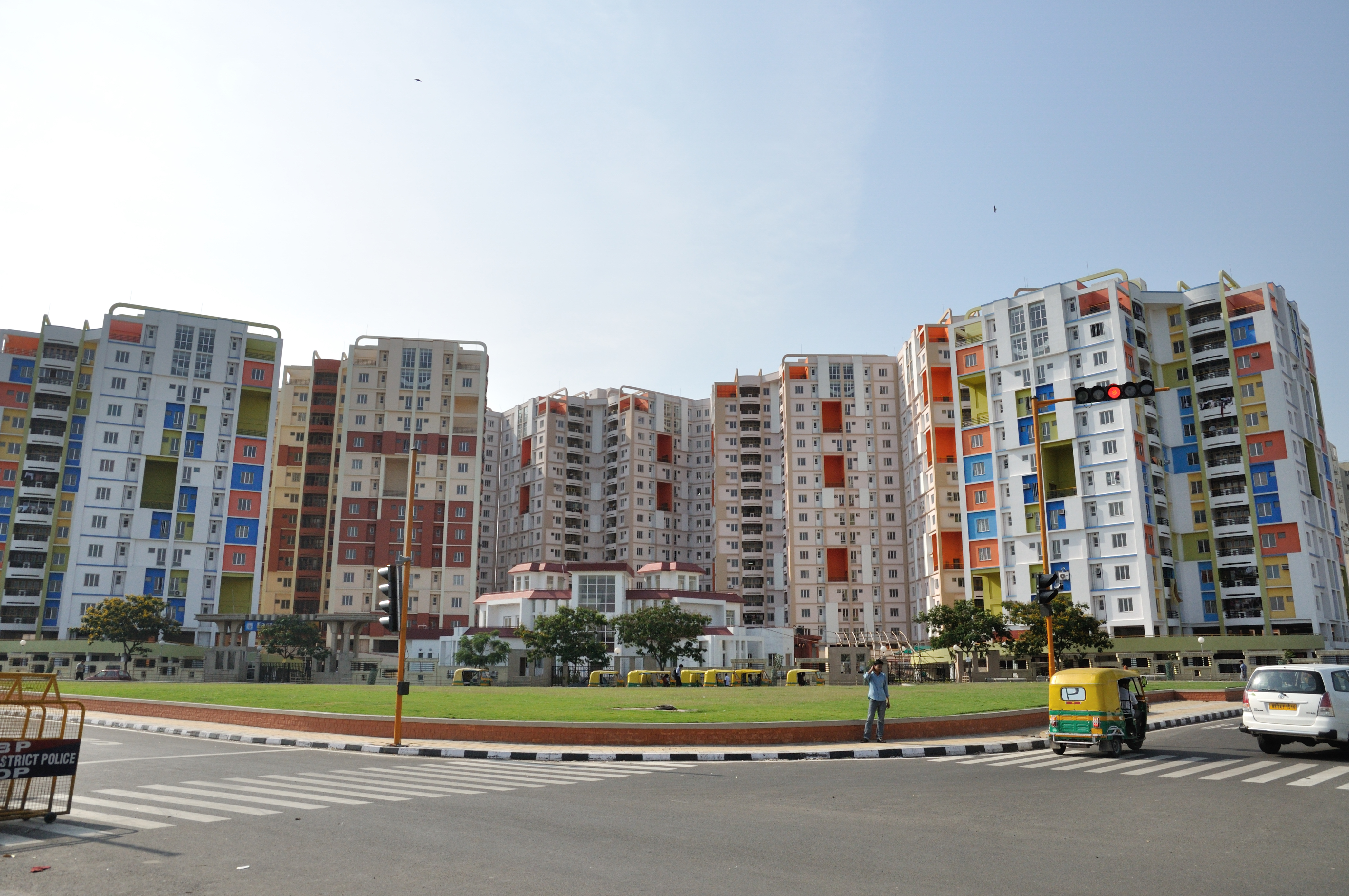 Rajarhat, Norh 24 Parganas, West Bengal.